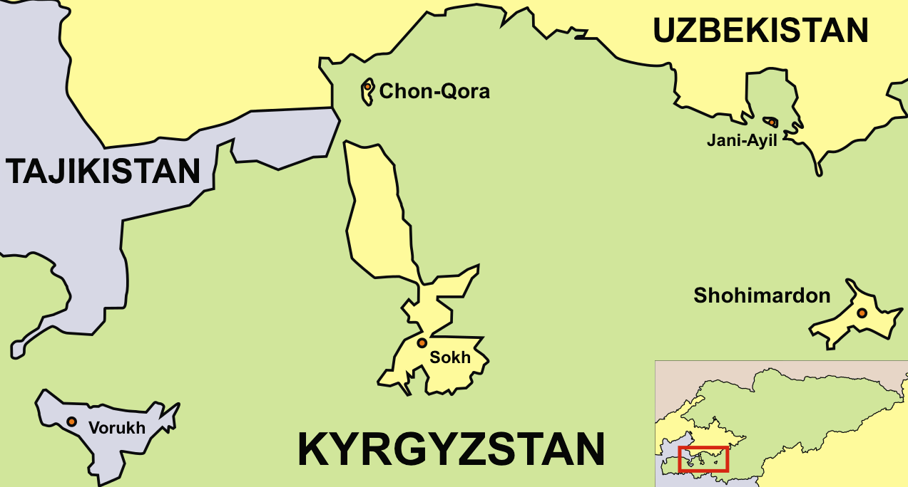 Map showing enclaves in Kyrgyzstan labeled in English. This is a retouched picture, which means that it has been digitally altered from its original version. Modifications: English translation. The original can be viewed here: Enclaves in Kyrgyzstan RU.svg. Modifications made by PlanespotterA320.